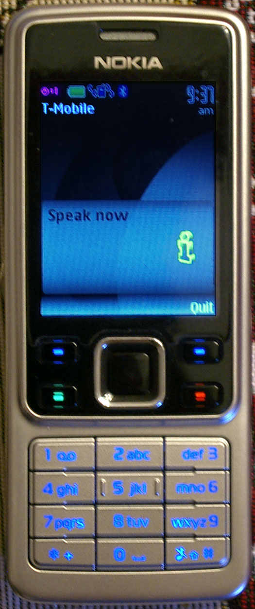 Image of the front of the Nokia 6301b showing it ready to listen to the user speak a name to use for hands-free voice dialing.